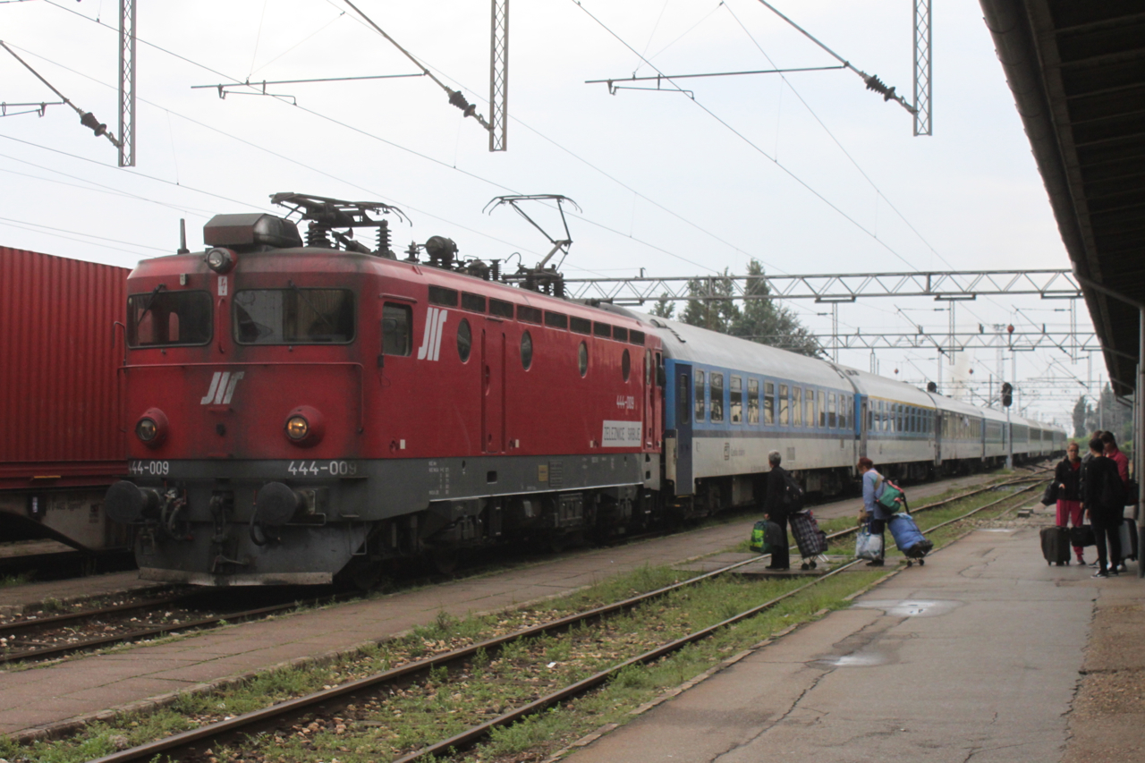 ŽS 444-009 arriving at Subotica train station ahead of InterCity 272 "Avala" from Beograd to Praha hl.n.